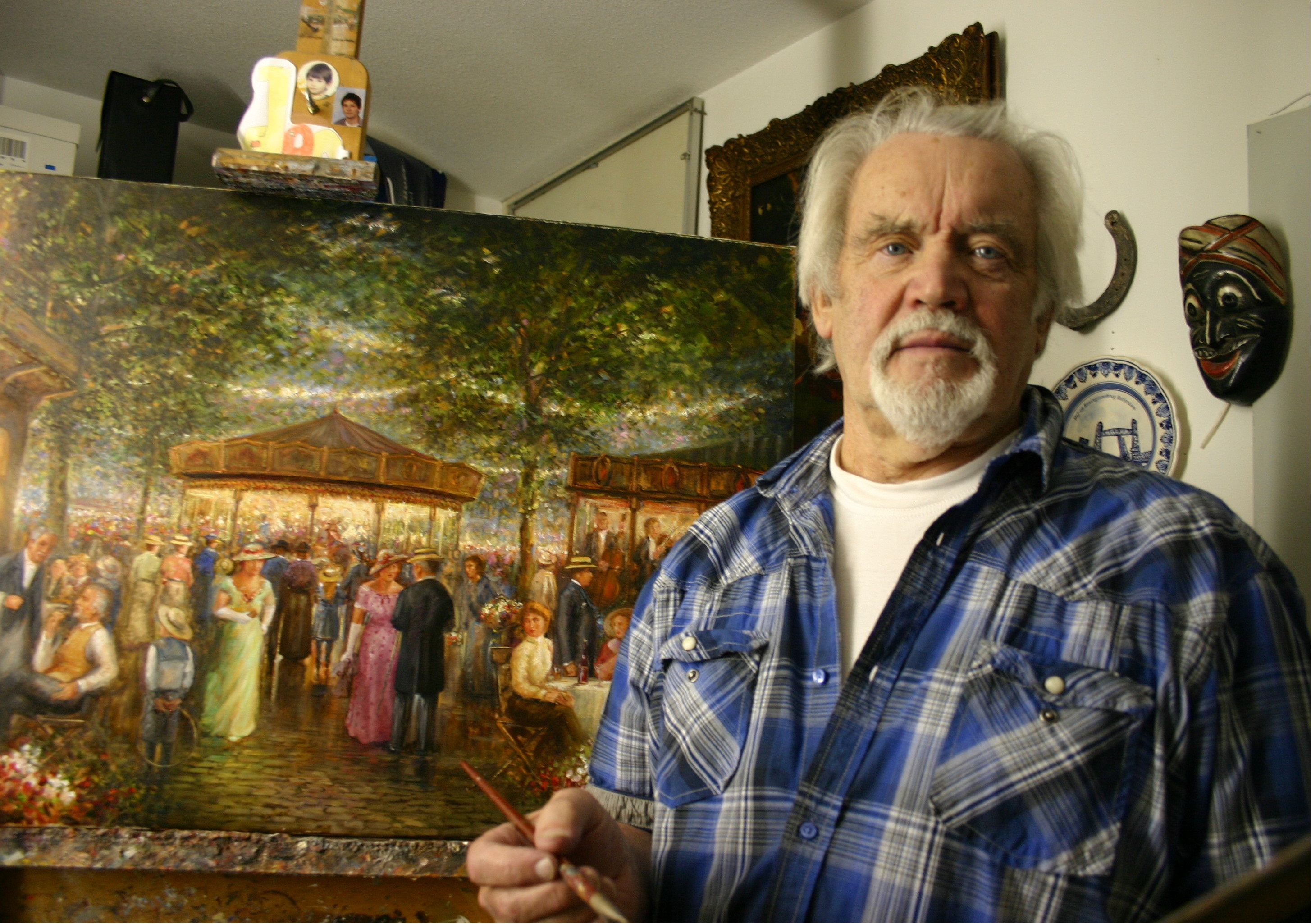 Dutch painter JJ Hovener